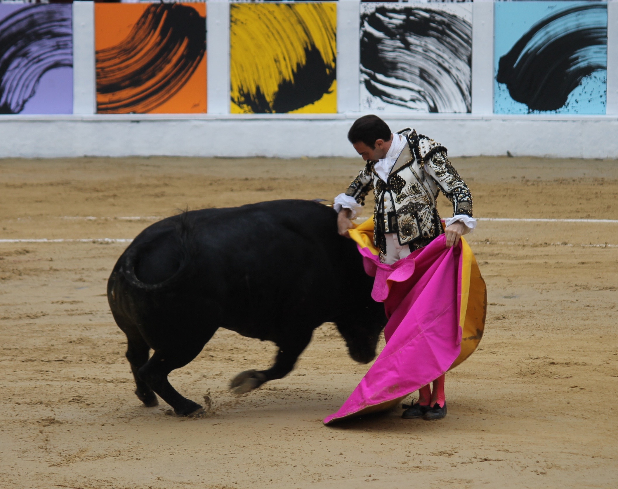 Tercera corrida de abono de 2019 en Bogotá